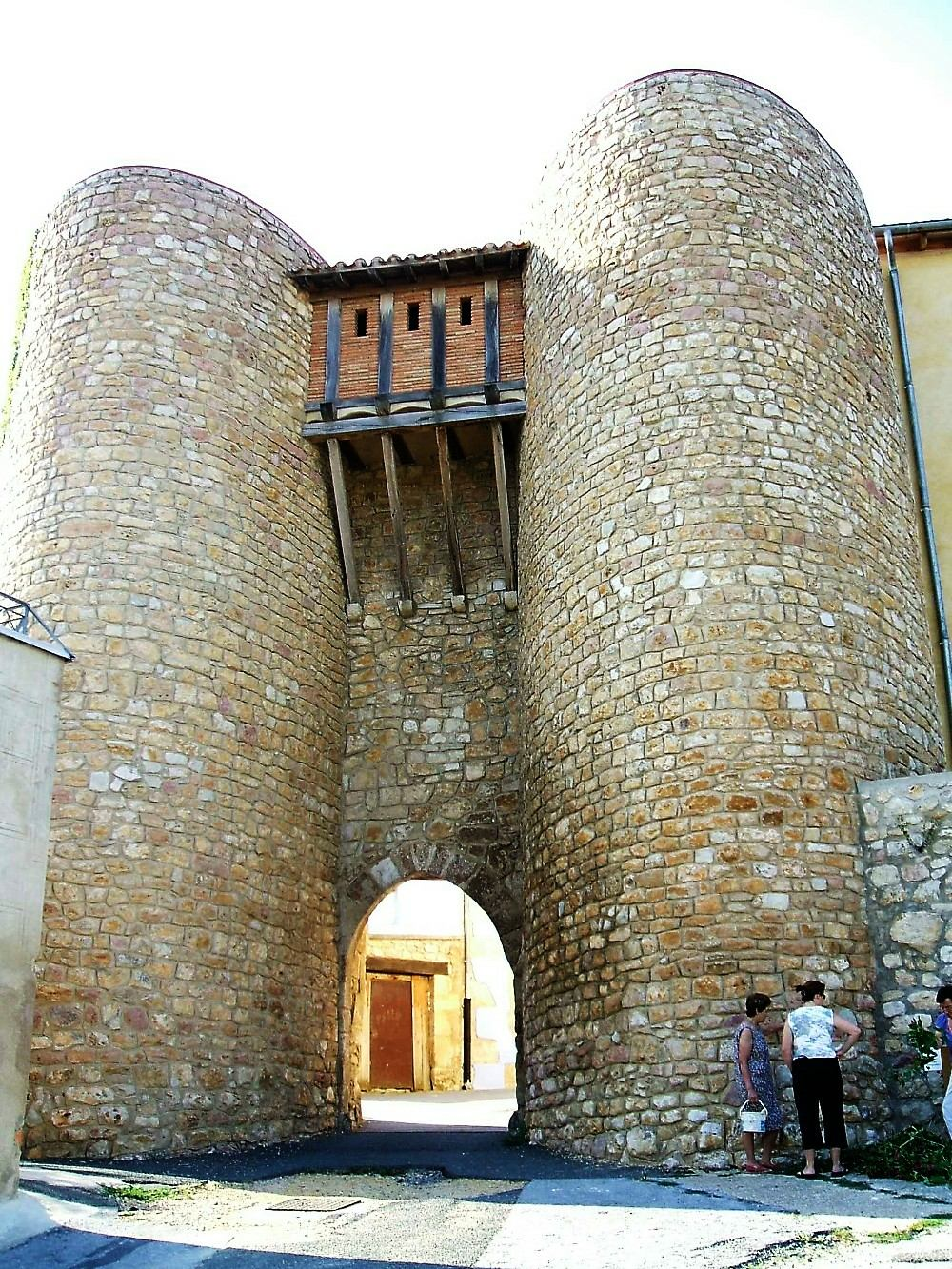 Puerta amurallada de Peñacerrada (Álava)